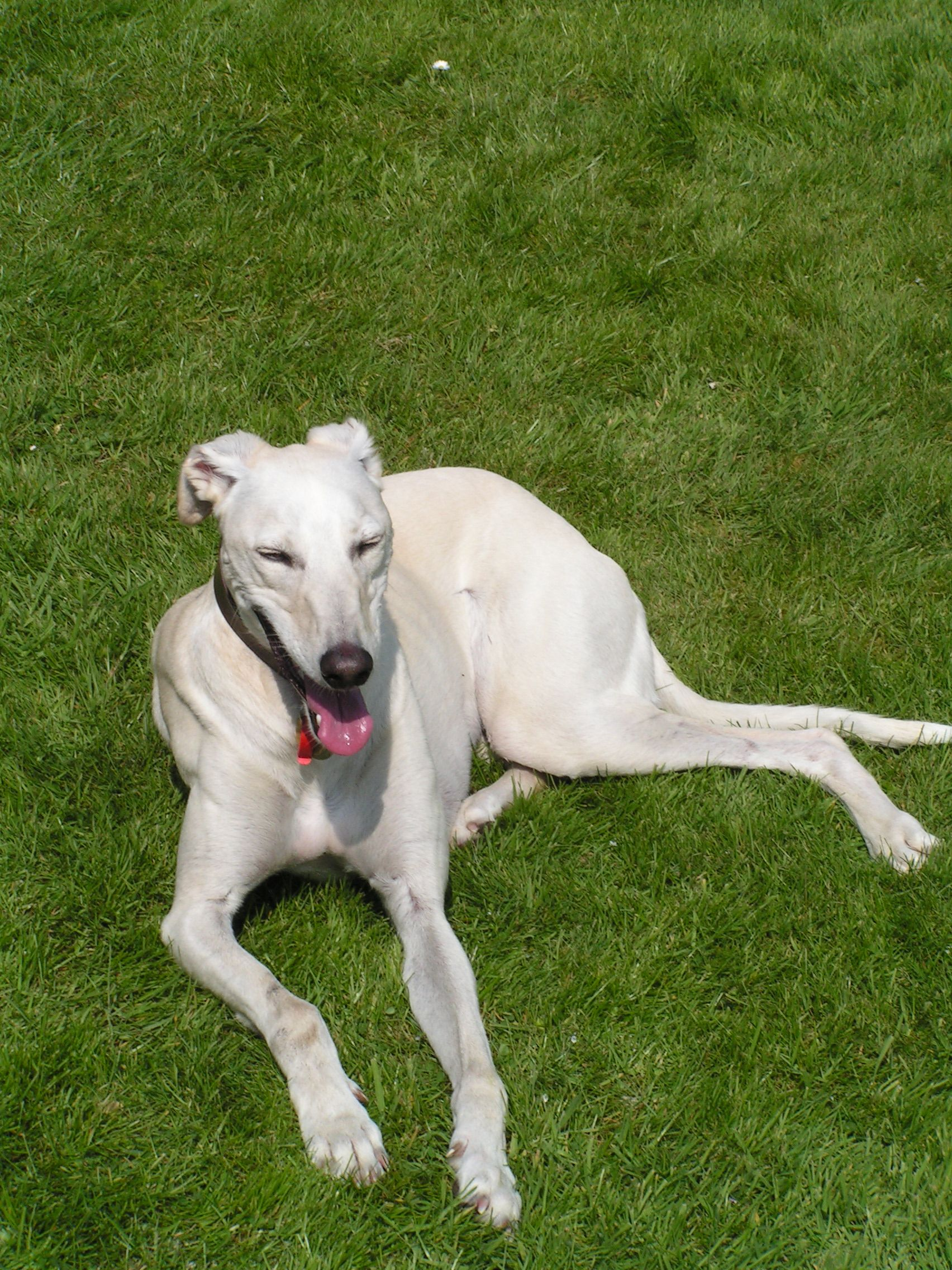 A Lurcher. These dogs are similar to Greyhounds but a different breed.